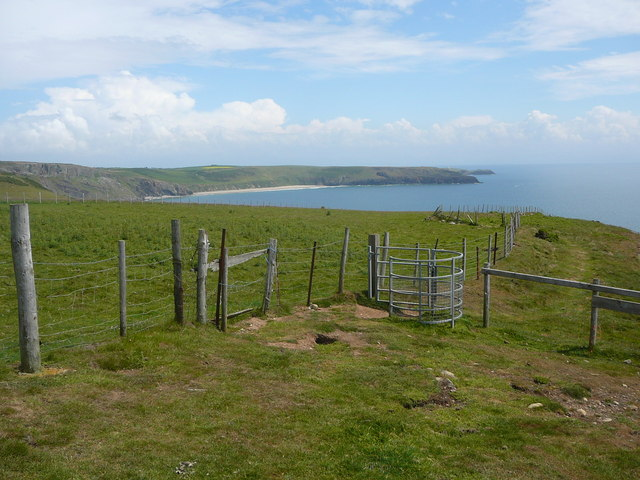 On the Llyn Coastal Path north east of Trwyn Cilan